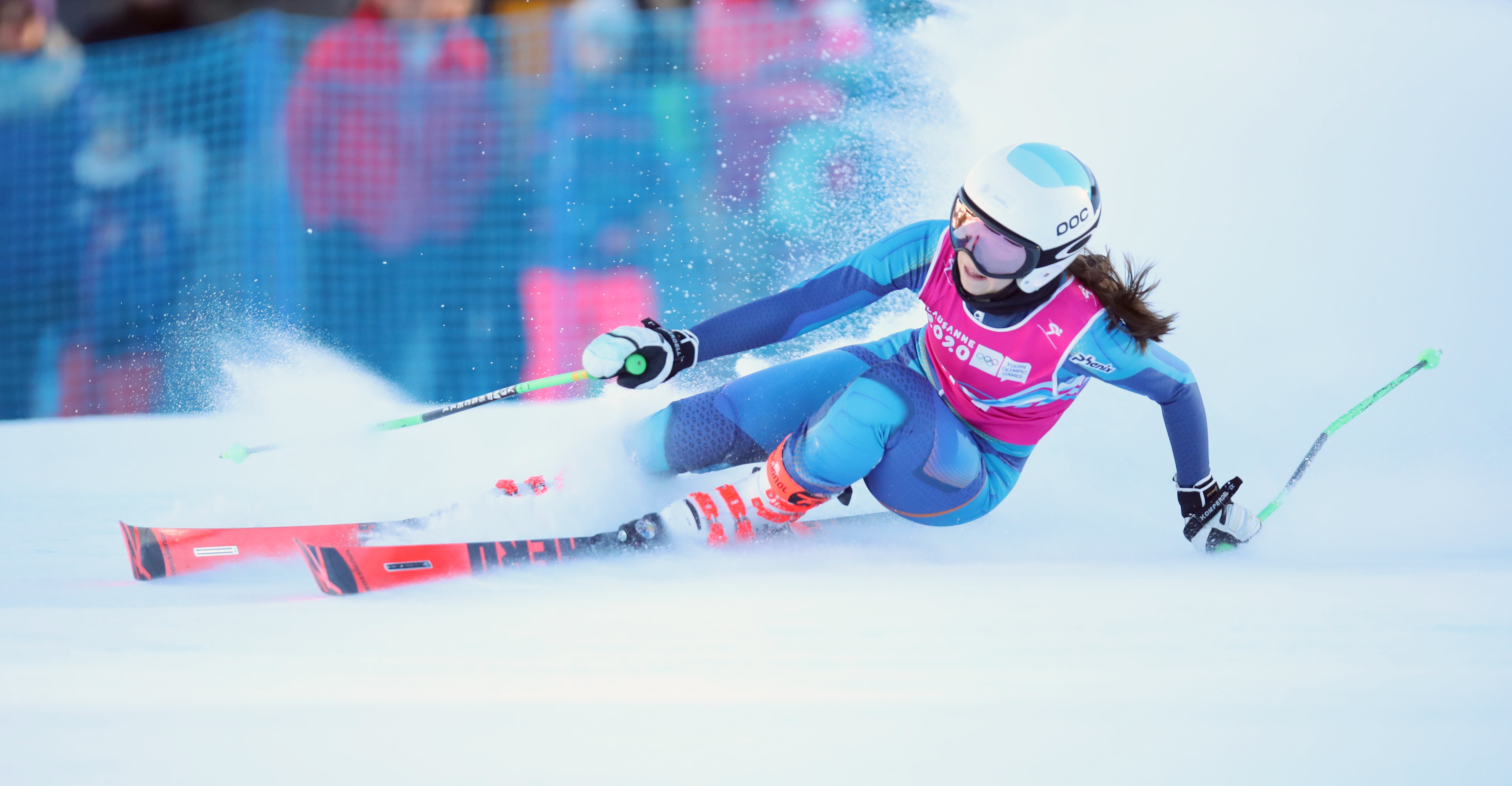 1st run of Alpine Skiing – Women's Giant Slalom at the 2020 Winter Youth Olympics in Lausanne on 12 January 2020. Depicted: Sara Madelene Marøy.